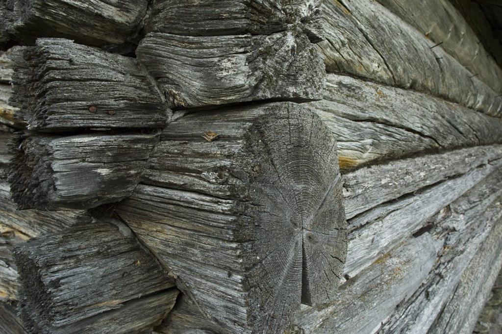 Detail from log cabin in Rendalen, Norway